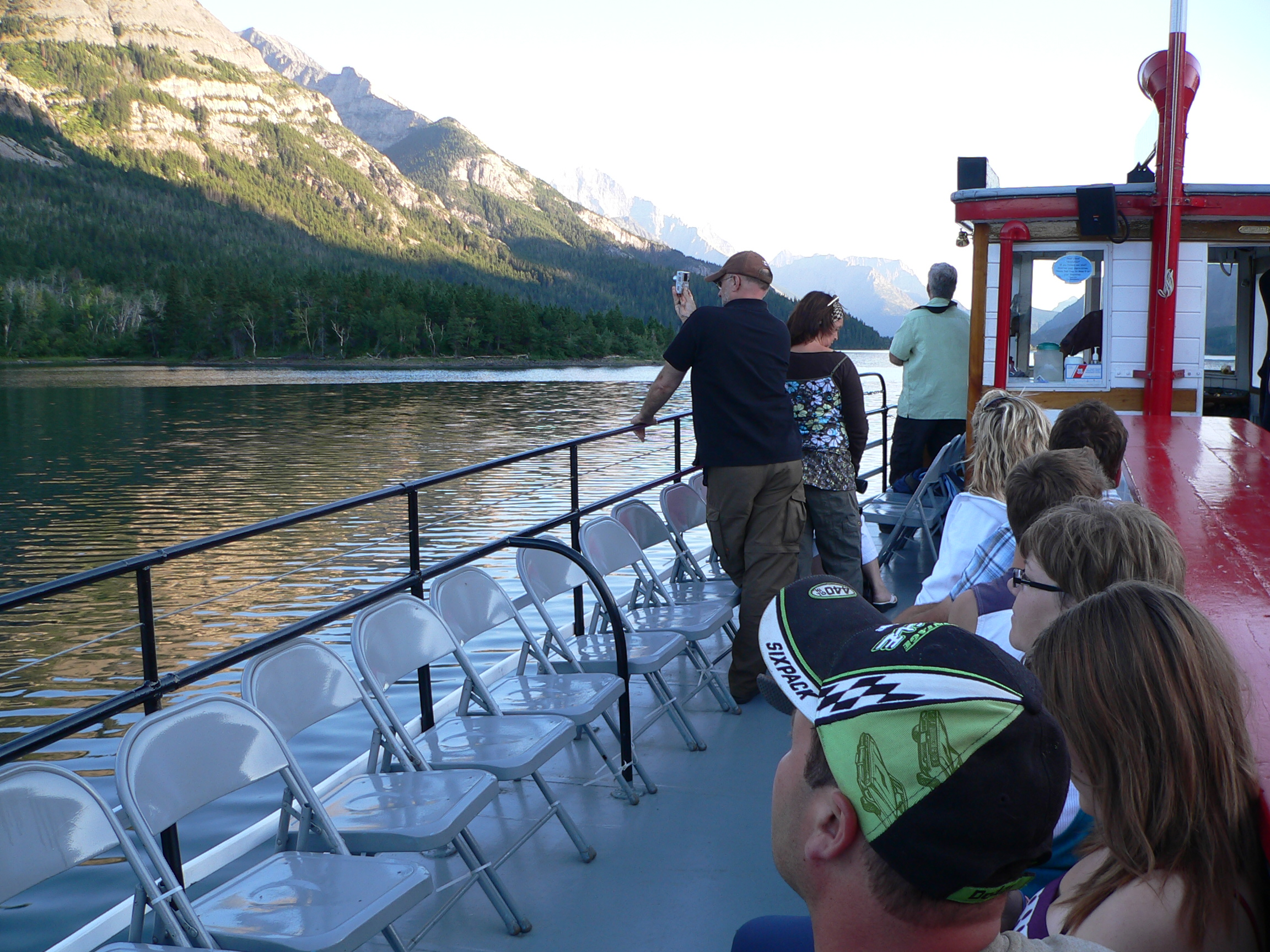 Cruise aboard the International on Lake Waterton in Waterton Lakes National Park